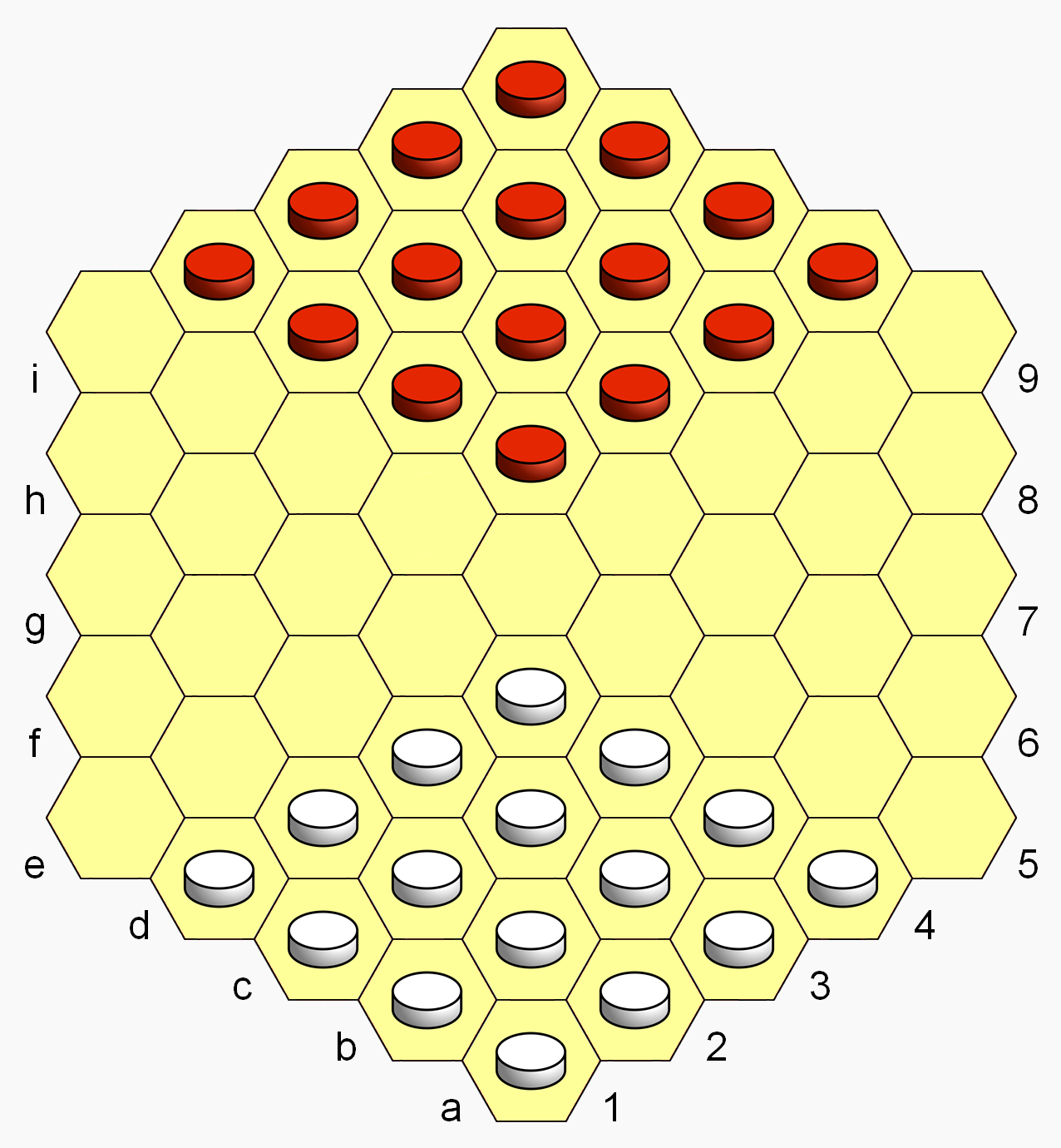 Hexdame starting position. Using the great checker icons of User:Stellmach (svg'd by User:Stannered); everything here done in MS PAINT.